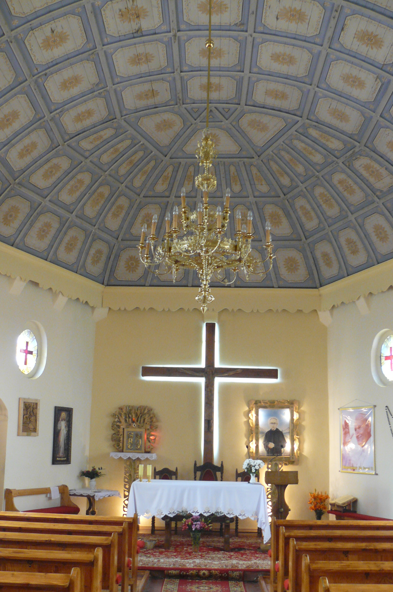 Podanin - Church interior.